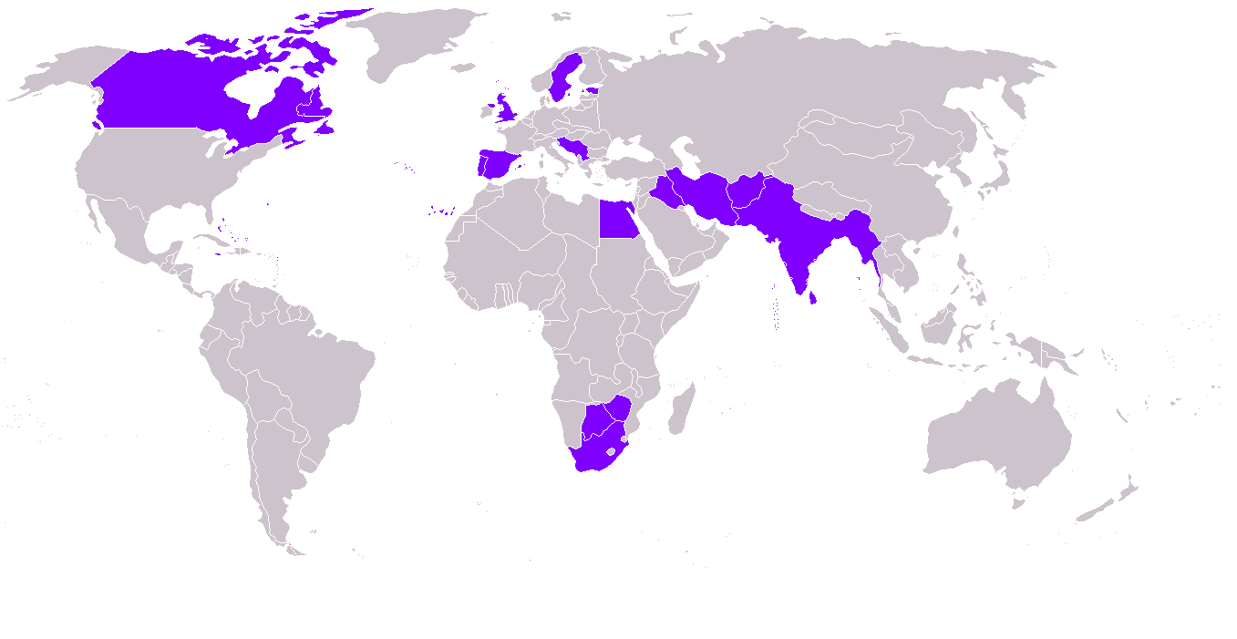 World map of Hawker Hart operators